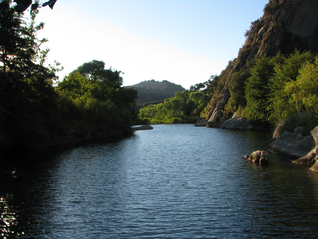 Photograph of Santa Ynez River in California